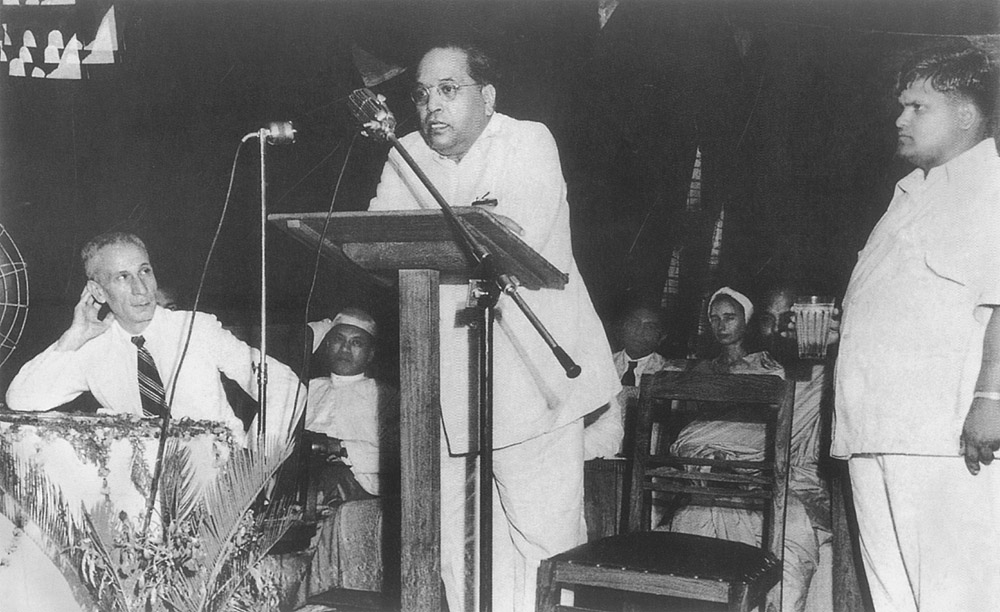 Dr. B.R. Ambedkar addressing a conference on the occasion of Buddha Jayanti organised at Ambedkar Bhawan, Delhi. The Guest of Honour, the then Ambassador of France in India, is seen on the left in the photograph. Shankaranand Shastri is seen on the right.